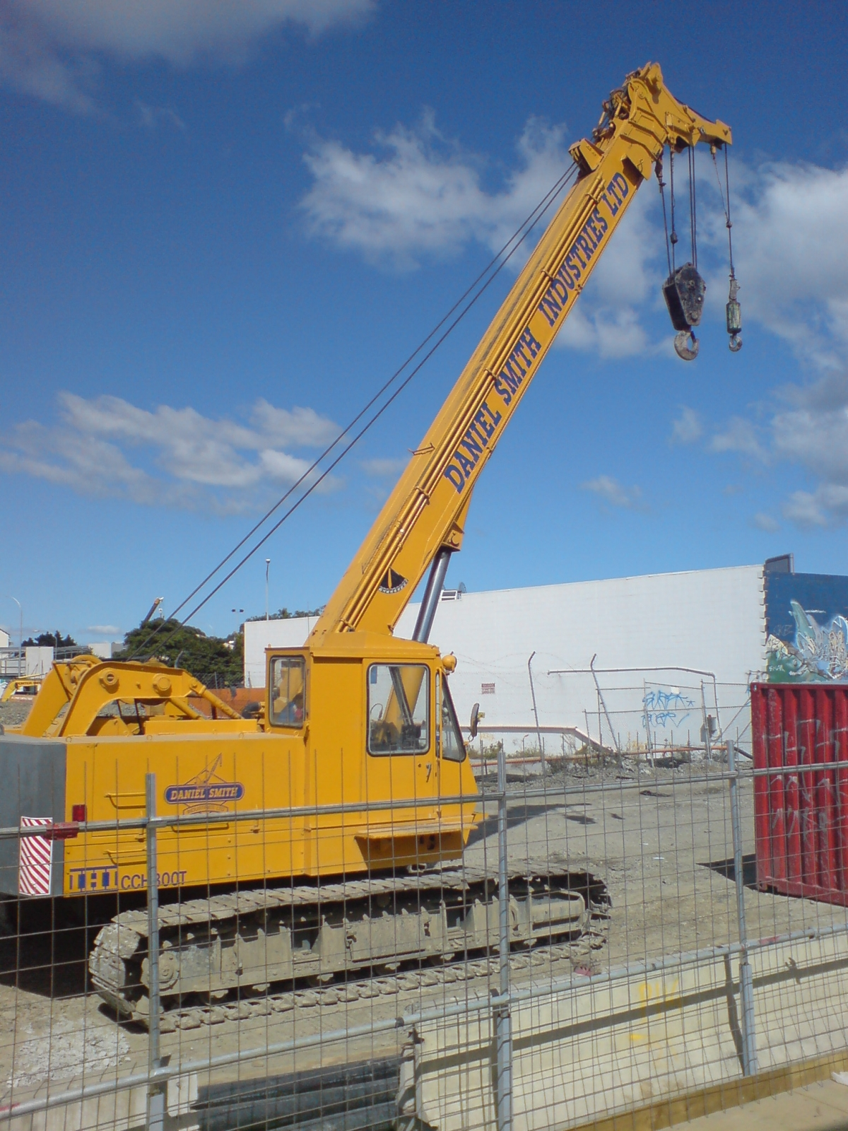 A construction crane near the New Lynn trench worksite in Waitakere City, New Zealand. Coordinates may be off on the order of around 50m.